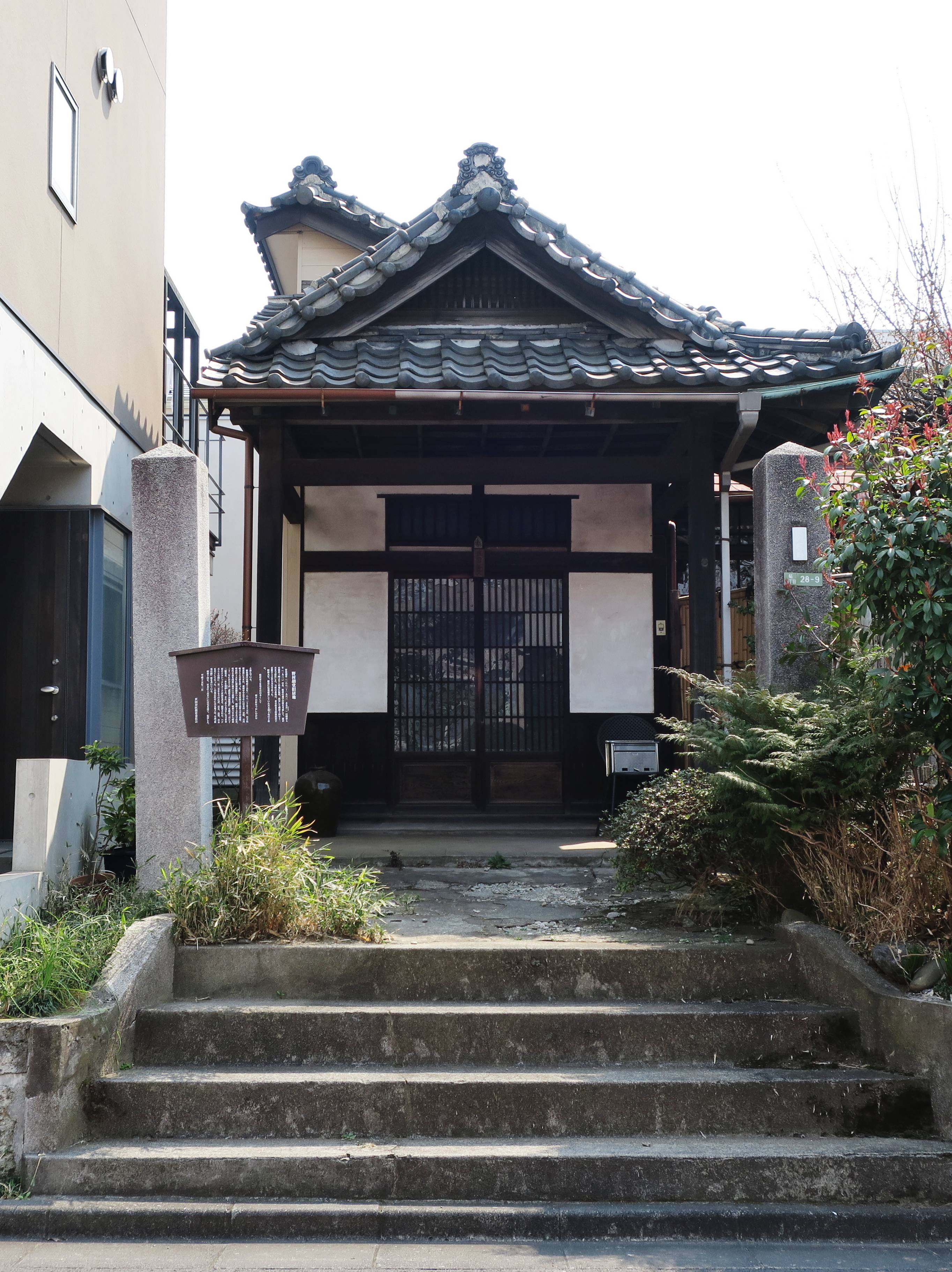 Former Nomura Kodō residence.